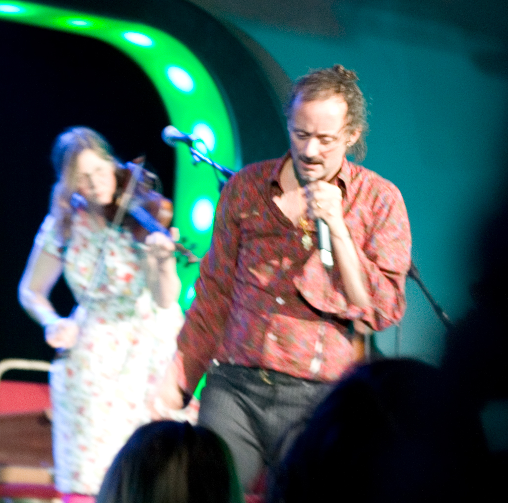 Current 93 at All Tomorrow's Parties 17 May 2007